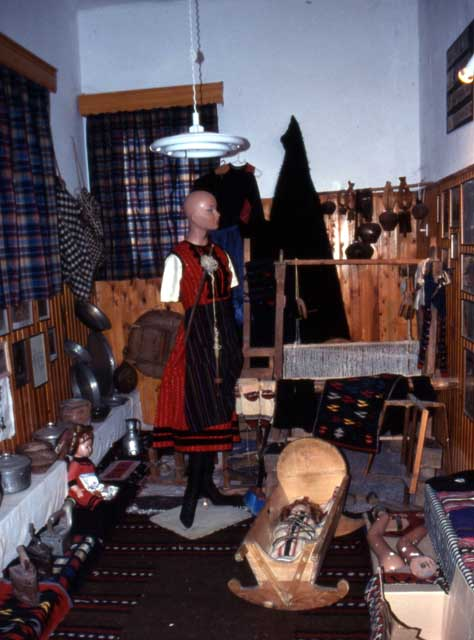 View of the interior, image from the Folklore Collection, Armenochori, West Macedonia, Greece